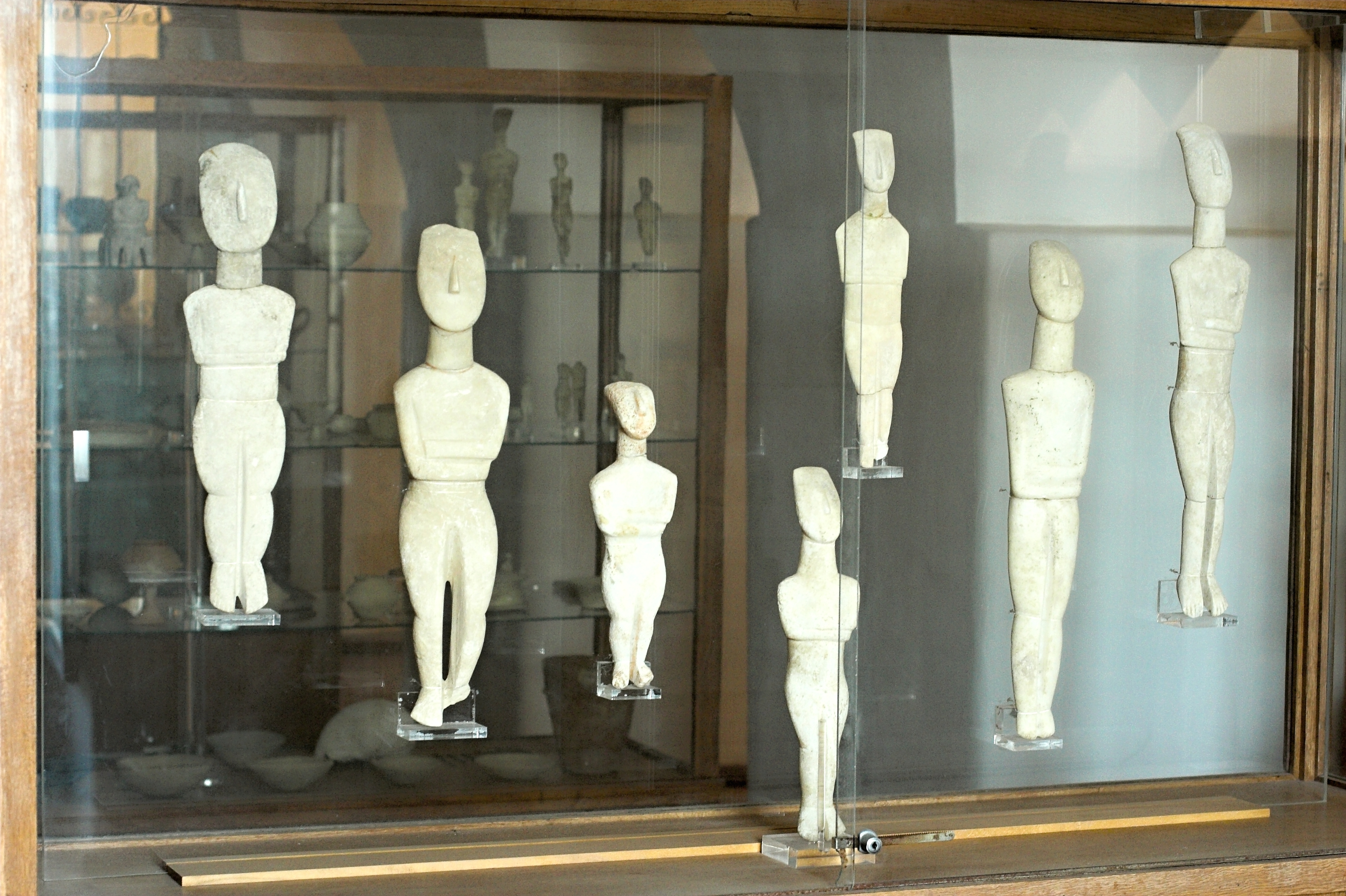 Cycladic figurines (canonical type, EC II) from various places in the Naxian countryside. Archaeological Museum of Naxos, Case 3.